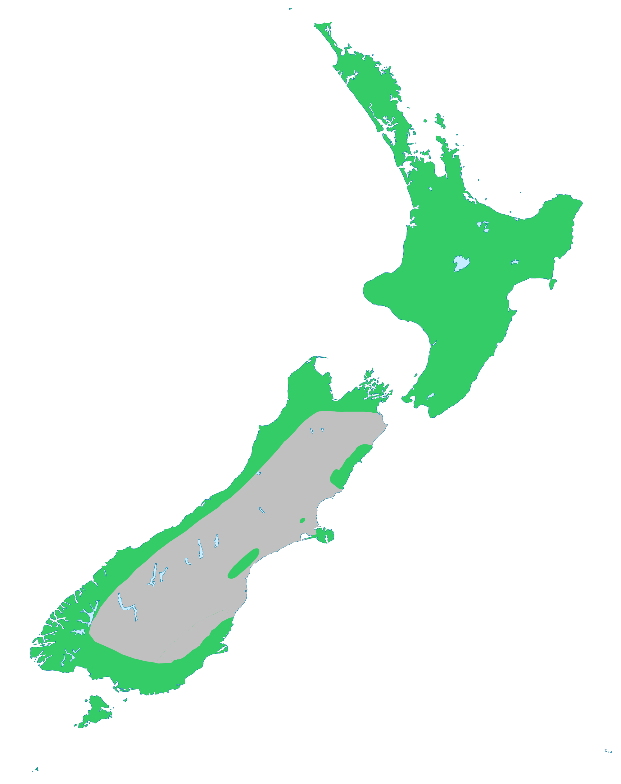 Natural range of Dacrycarpus dacrydioides, Kahikatea, endemic to New Zealand. Range information based on Metcalfe, L. (2002). A Photographic Guide to Trees of New Zealand. New Holland: Auckland. p. 14.